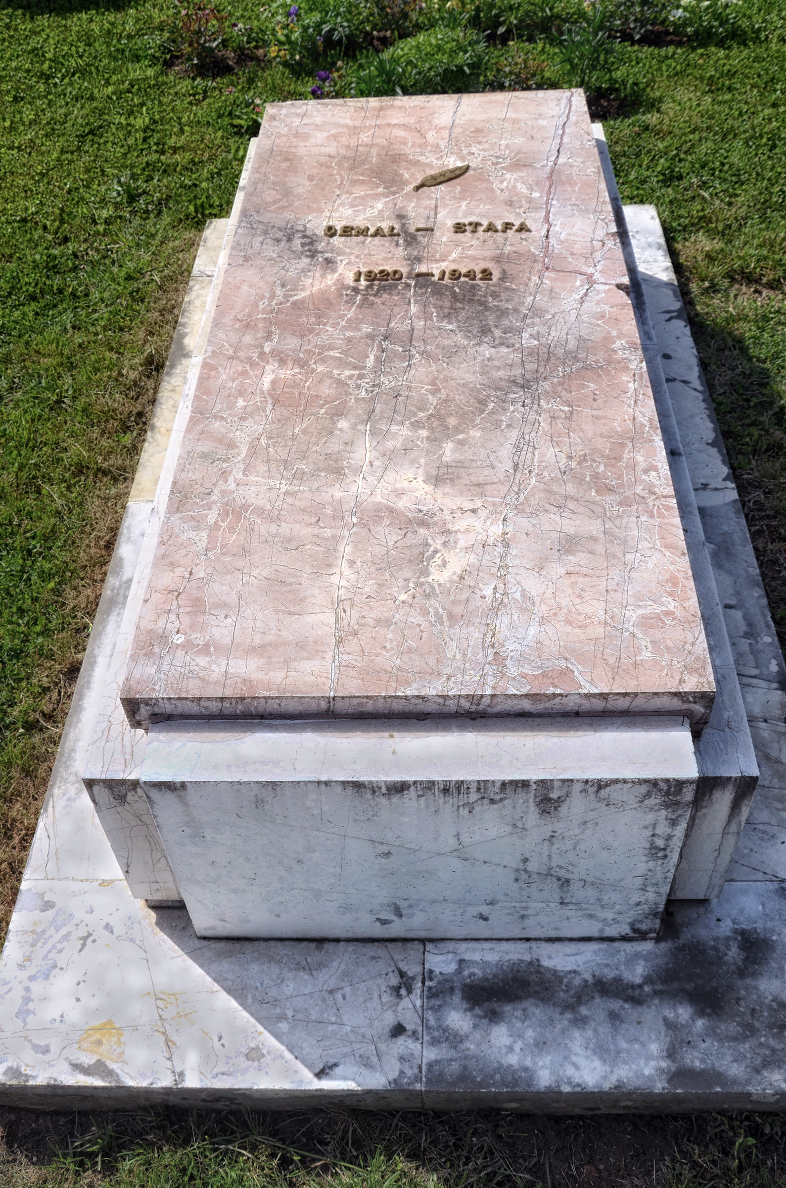 Qemal Stafa's grave in the Martyrs' Cemetery of Tirana, Albania